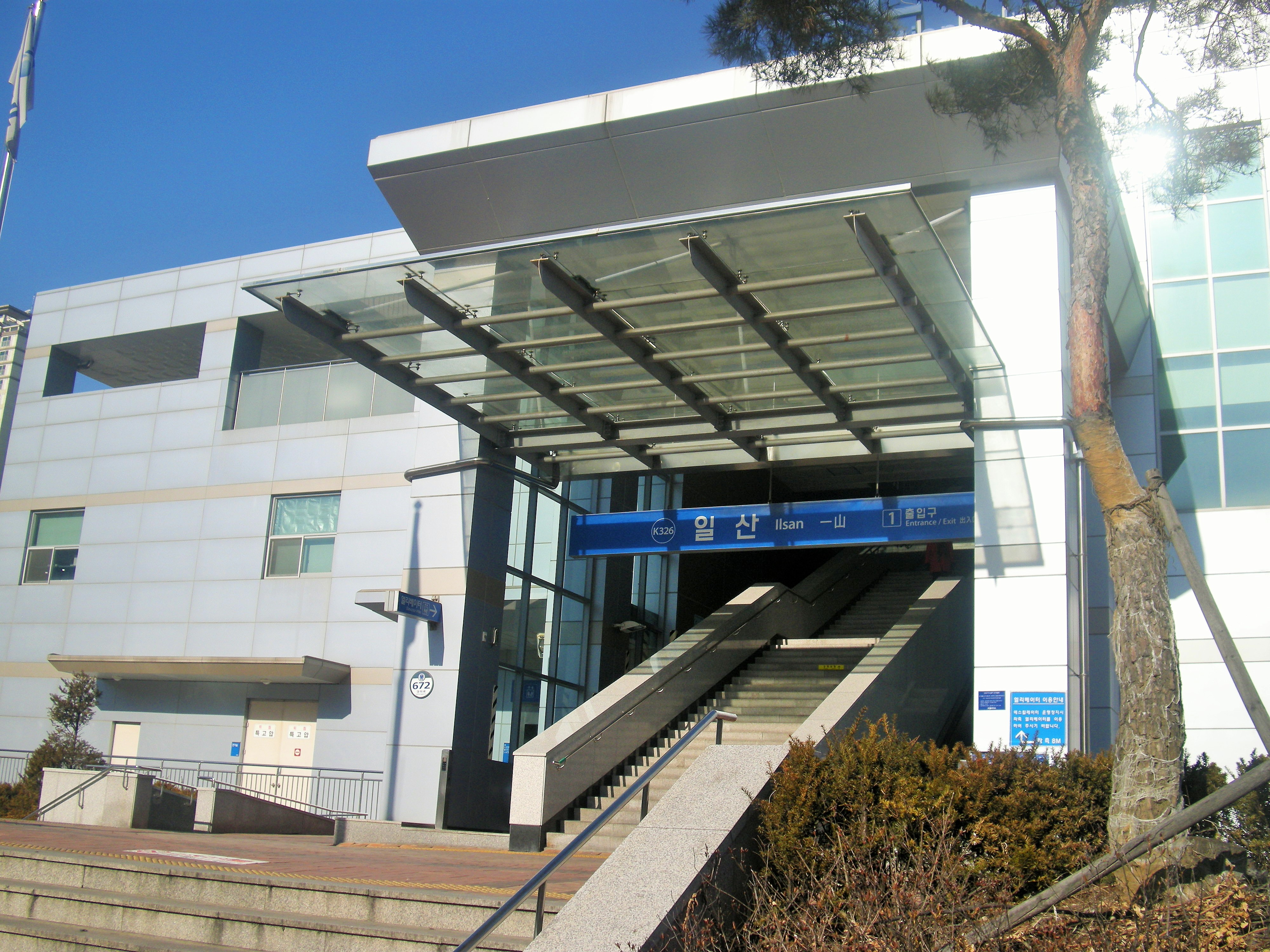 Exit No.1 of Ilsan Station, Gyeongui Line